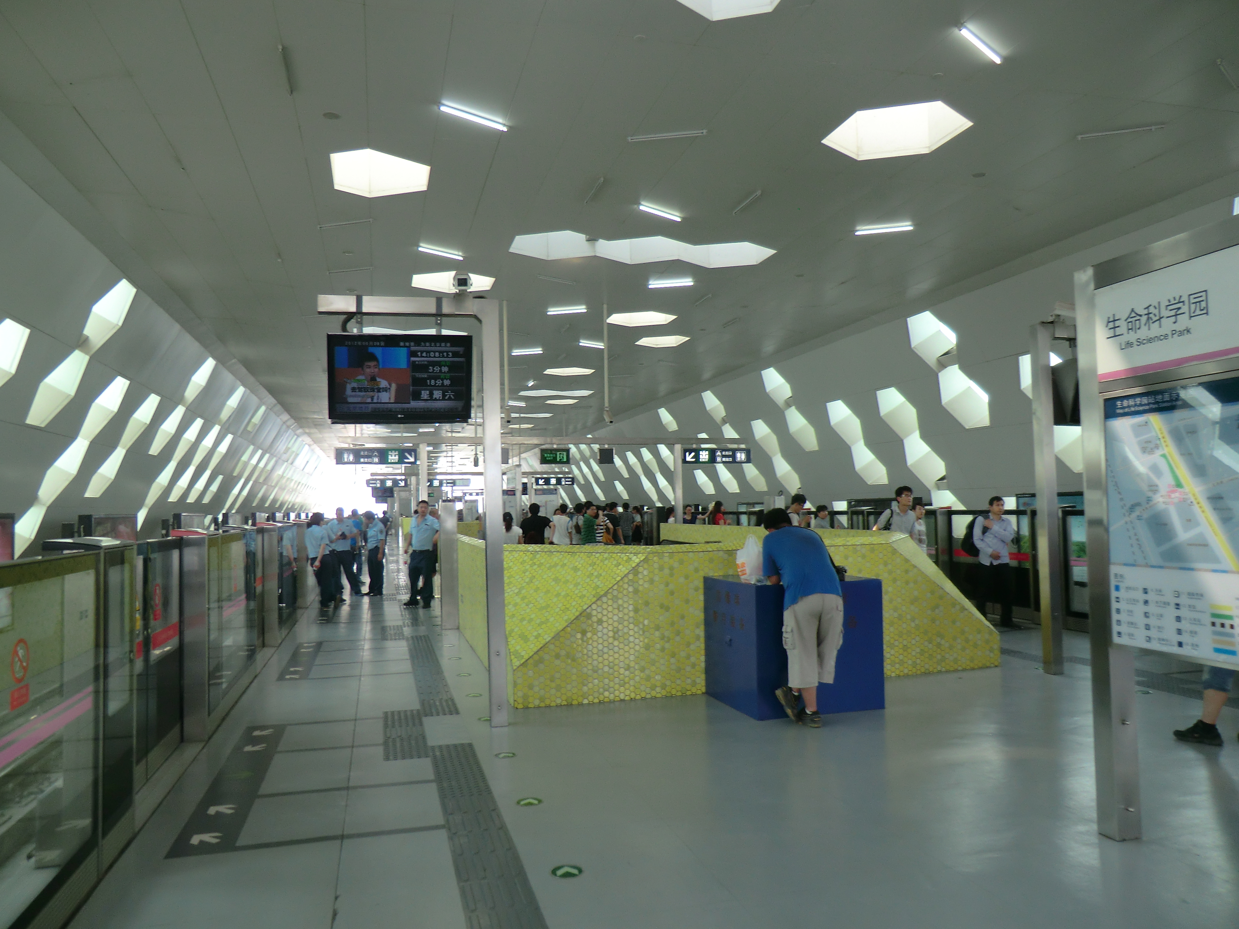 Beijing Subway, Changping Line, Life Science Park station